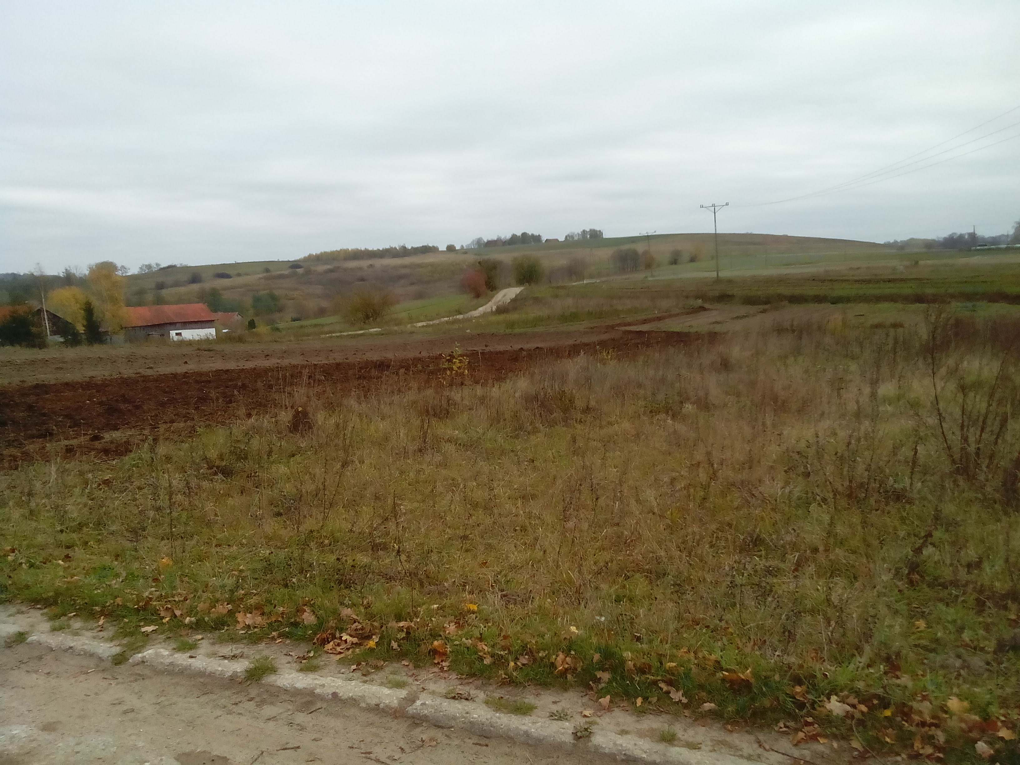 Konradowo in 2014 (before 1945 Waltersmühl. Part of the historic battle of Guttstadt-Deppen)